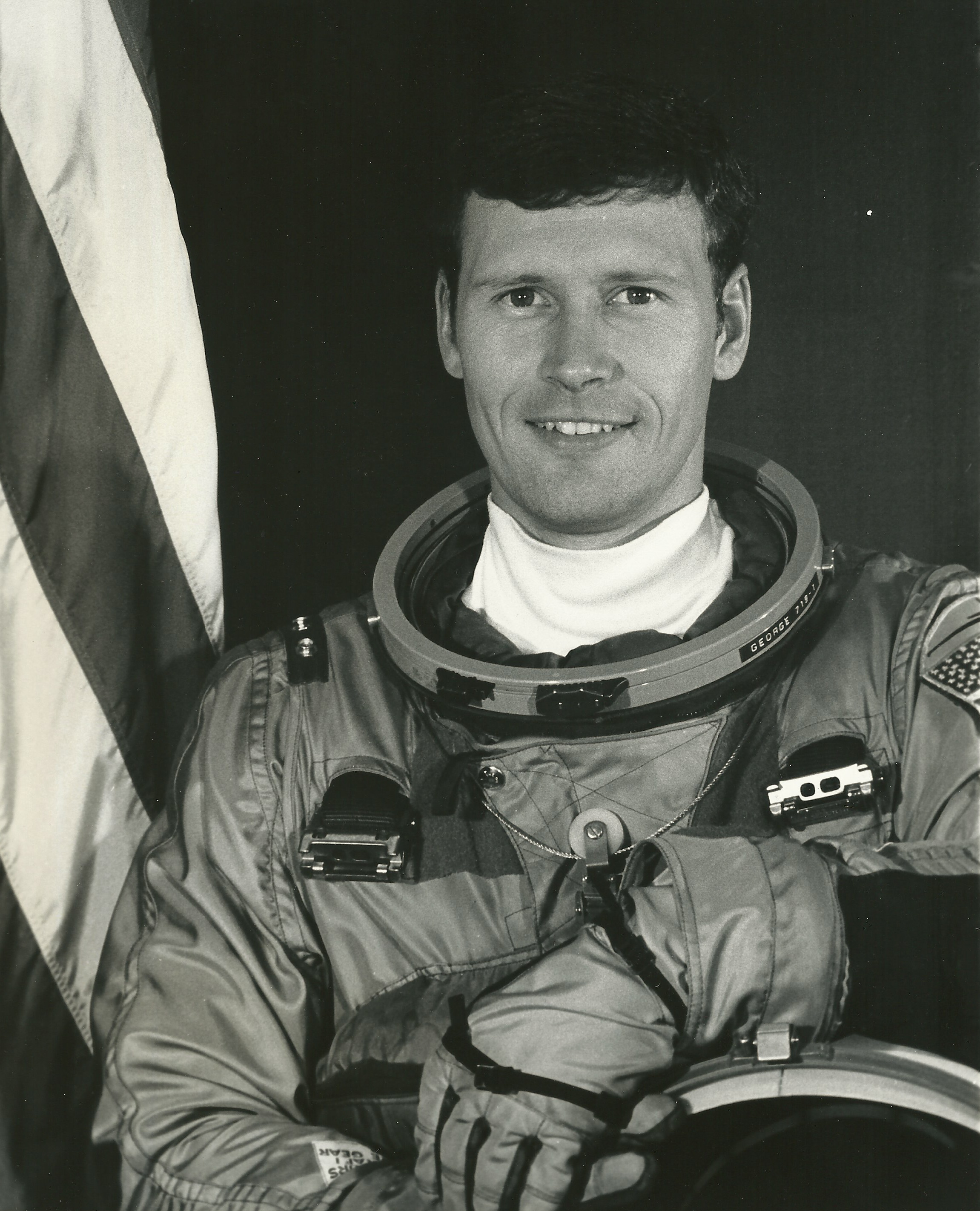 Photograph captures Captain Jonathan D. George as a U2 reconnaissance aviator.